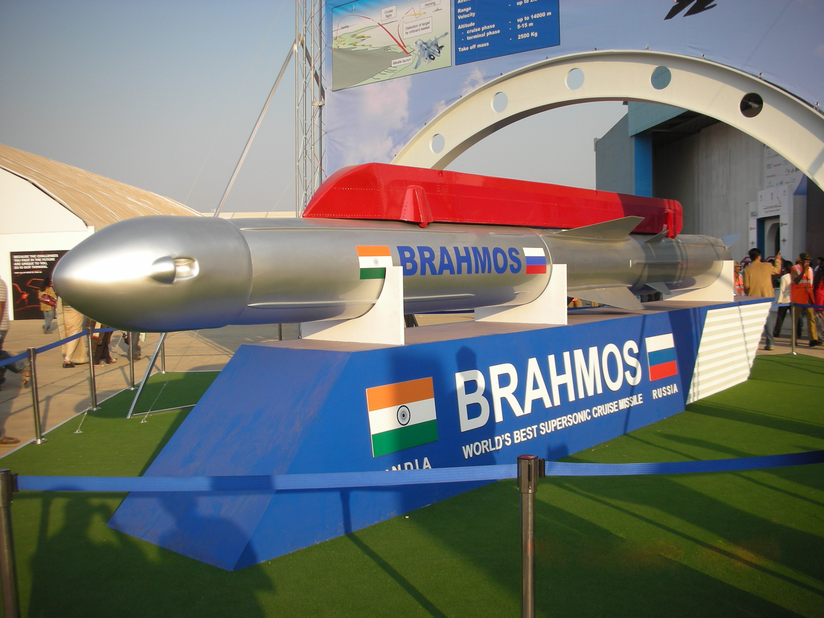 BrahMos is is the world's fastest cruise missile.